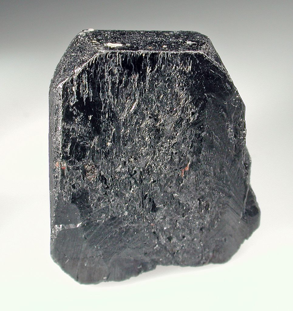 Tantalite-(Fe) Dimensions: 16 mm x 12 mm x 5 mm Locality: Linópolis, Divino das Laranjeiras, Minas Gerais, Brazil Original description: Ferrotantalite crystal, 16 x 12 x 5 mm.